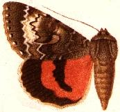 PLATE CXCVII.